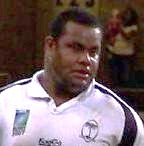 Rugby World Cup 2007 - Canada v Fiji